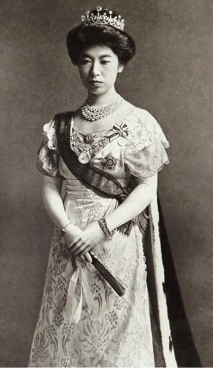 Empress Teimei